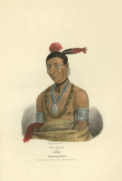 Winnebago chief Wak'an